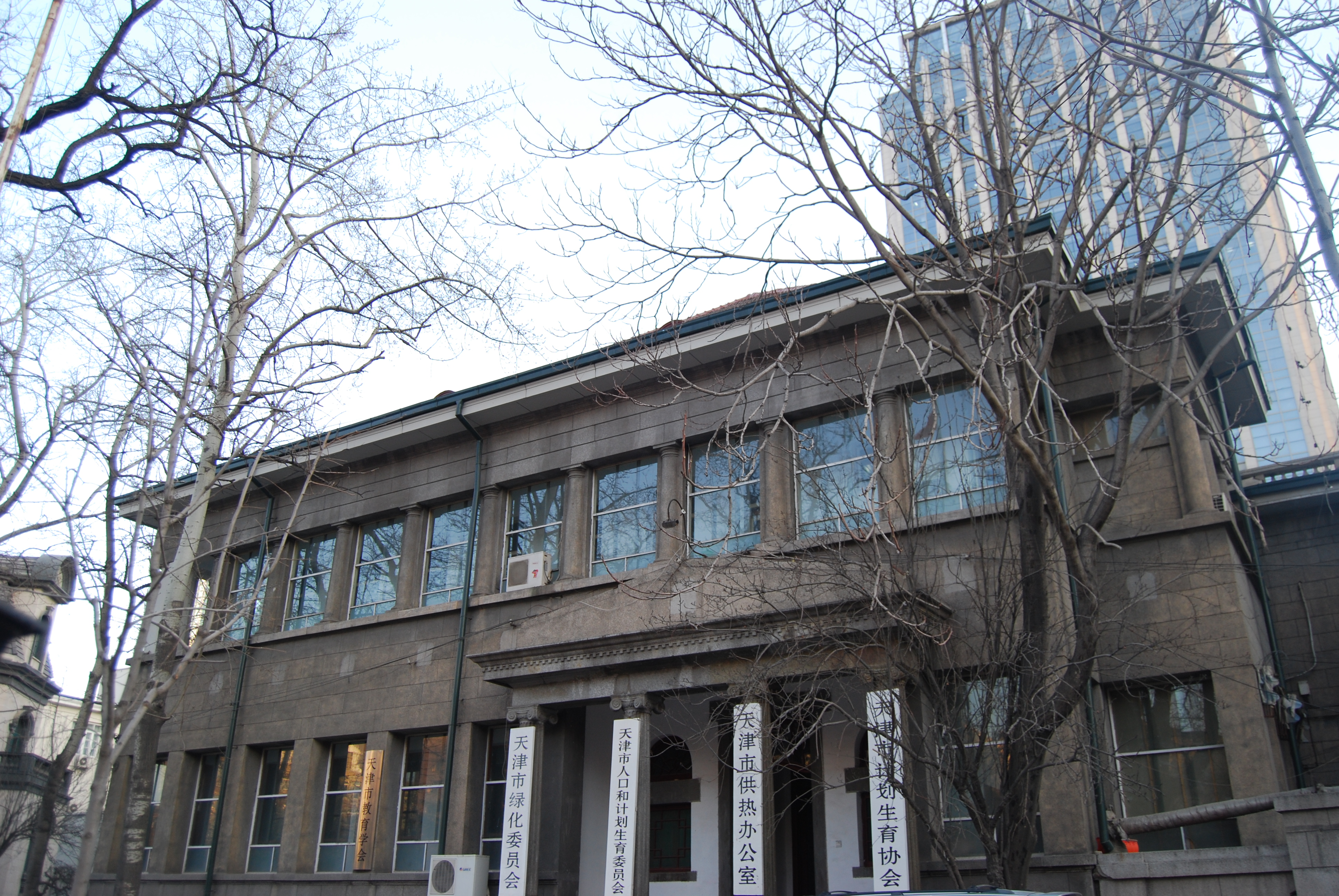 The Former Residence of Sun Chuanfang (1885–1935, warlord) in Tai'an Dao No. 15, Heping District, Tianjin